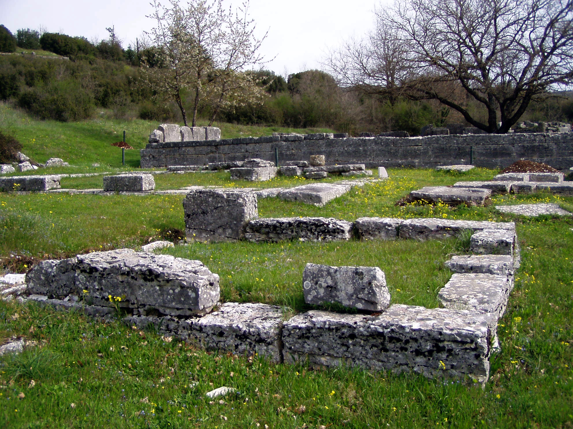 This is the Temple of Themis in Dodona.